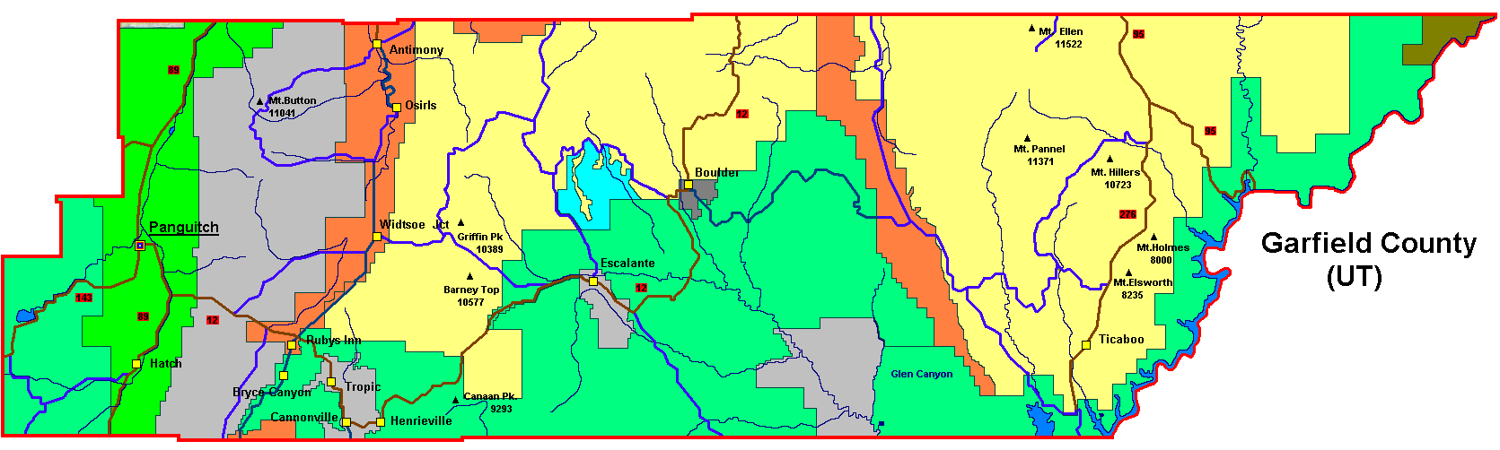 Garfield County (UT) Details; selfmade graphic by R.Blauert Dk4hb